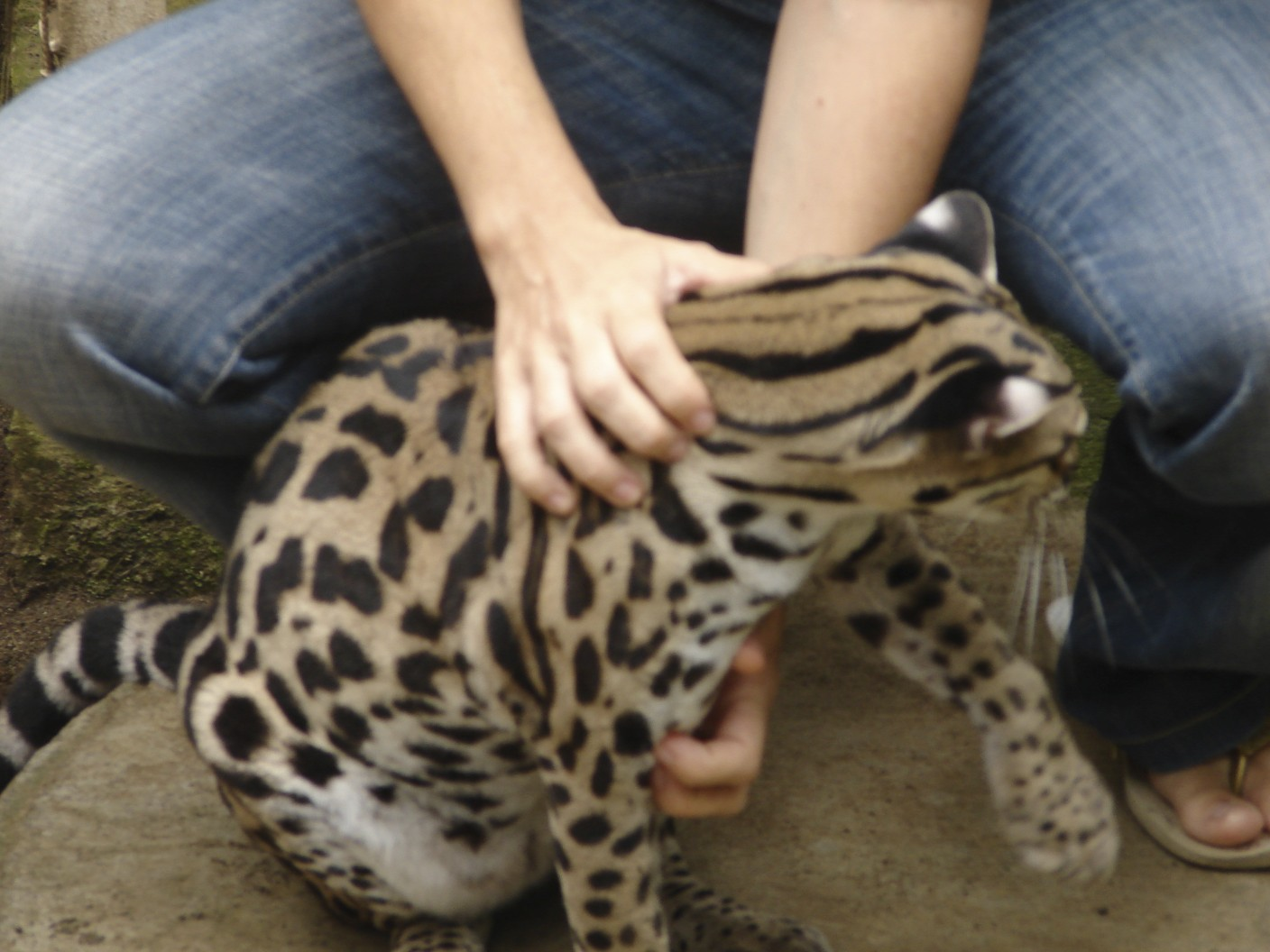 Encar Garcia with an ocelot at the Jaguar Rescue Centre in Costa Rica